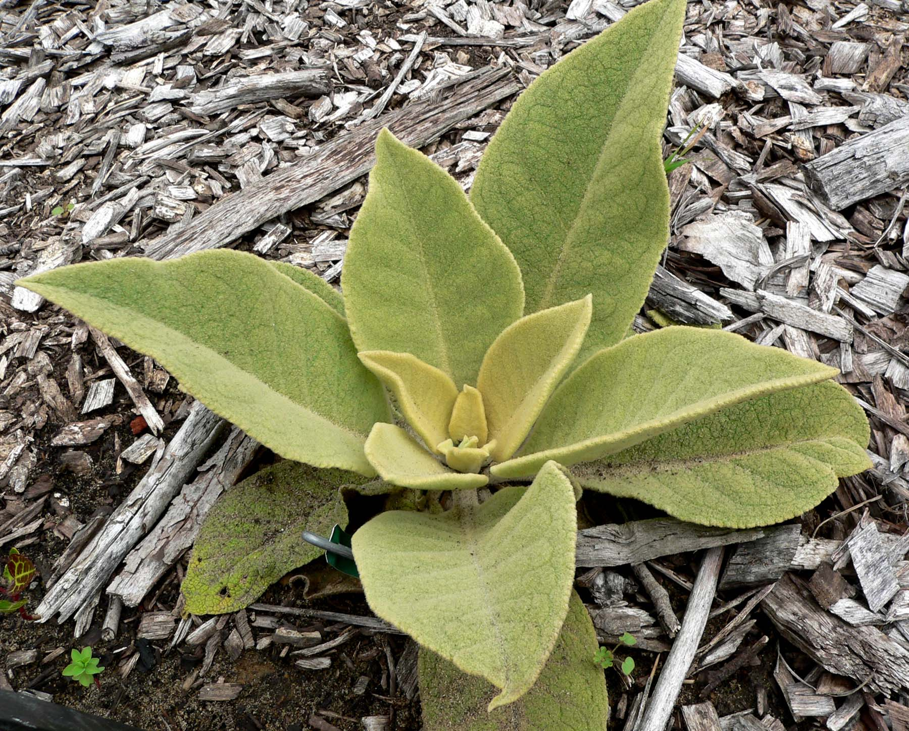 Photo of Verbascum epixanthinum at the San Francisco Botanical Garden